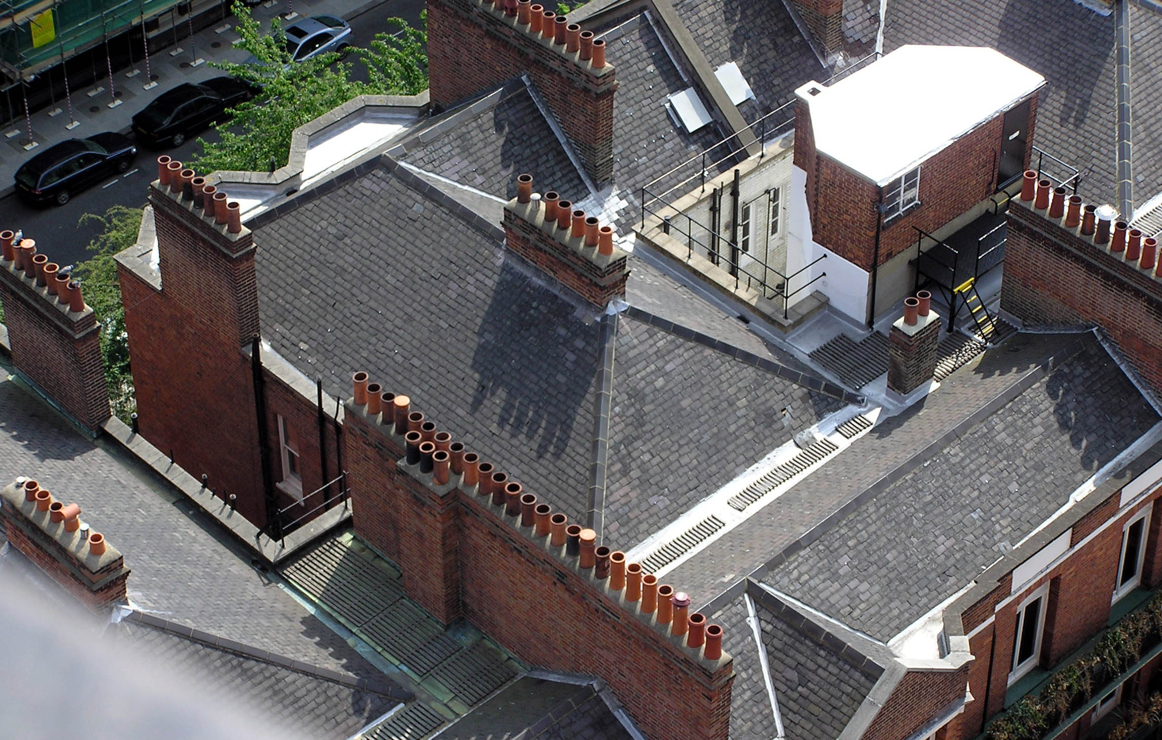 Chimney pots in London, England, seen from the tower of Westminster Roman Catholic cathedral.